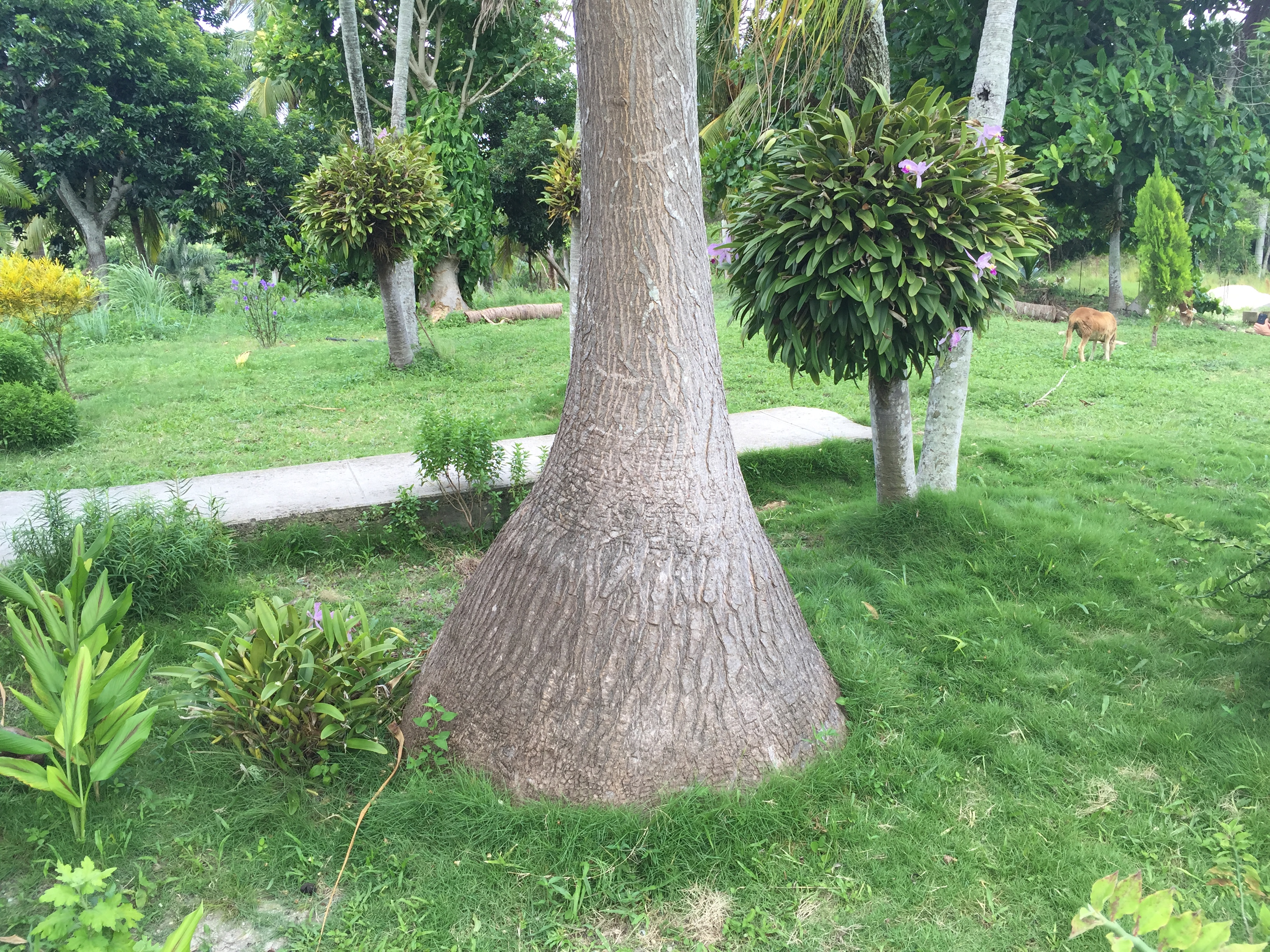 Elephant's foot palm tree trunk in Artemisa Province, Cuba